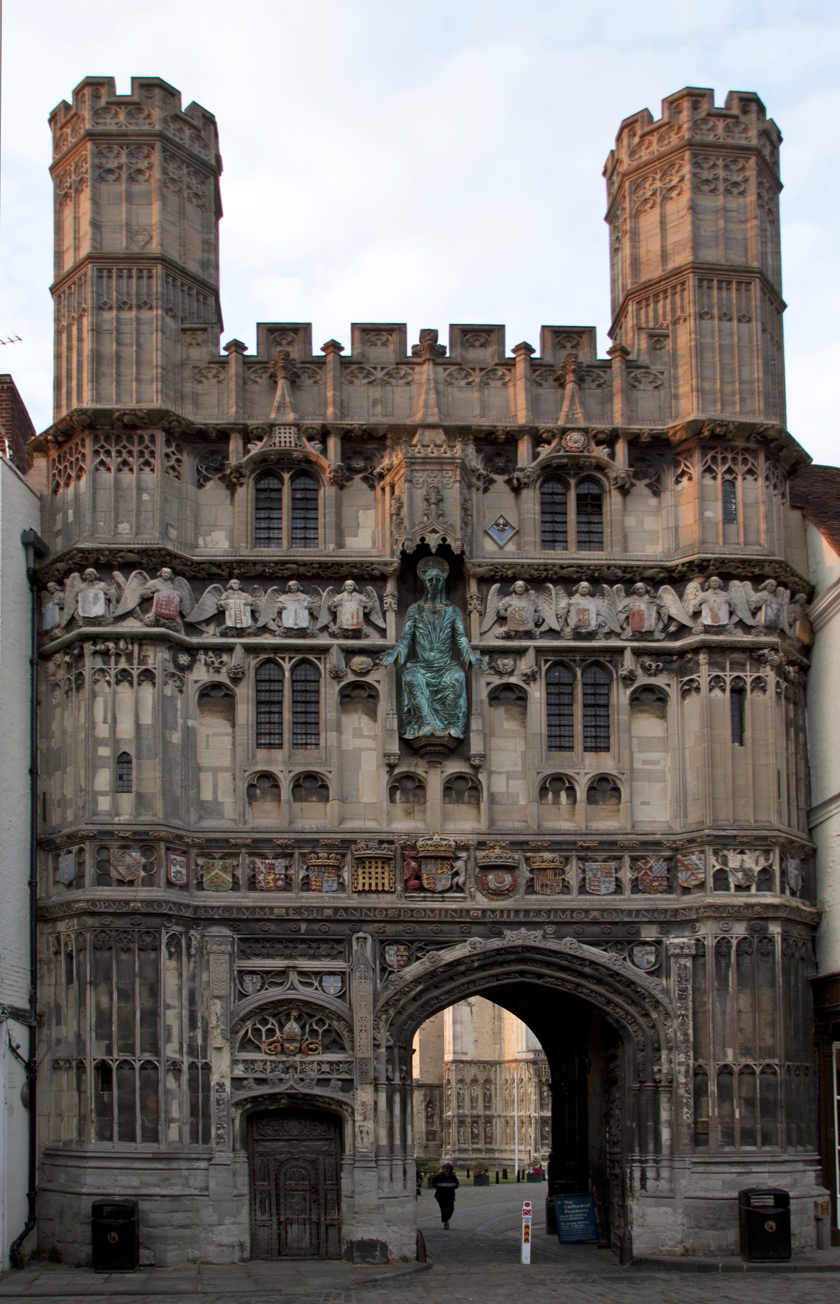 The entrance to the Cathedral Precincts, built in 1517